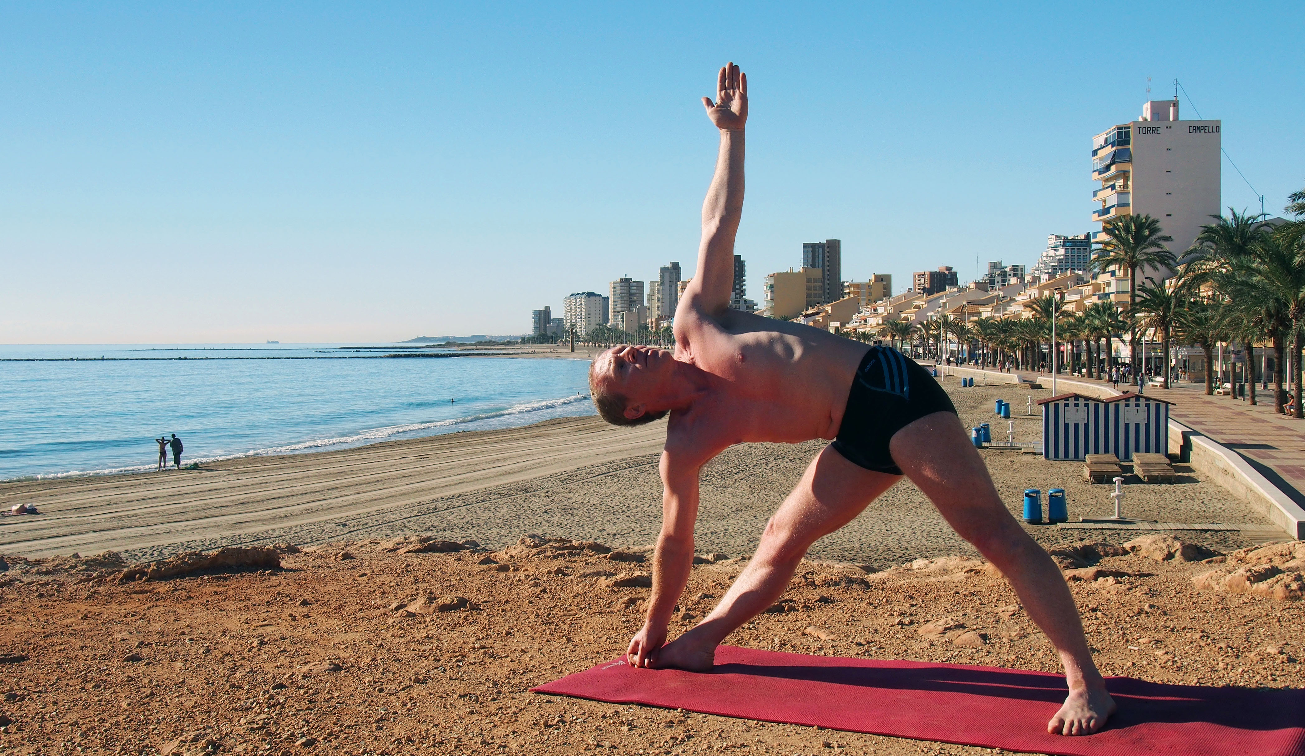 Triangle संस्कृतम्: Utthita trikonasana